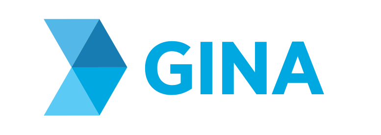 Logo GINA Software Company